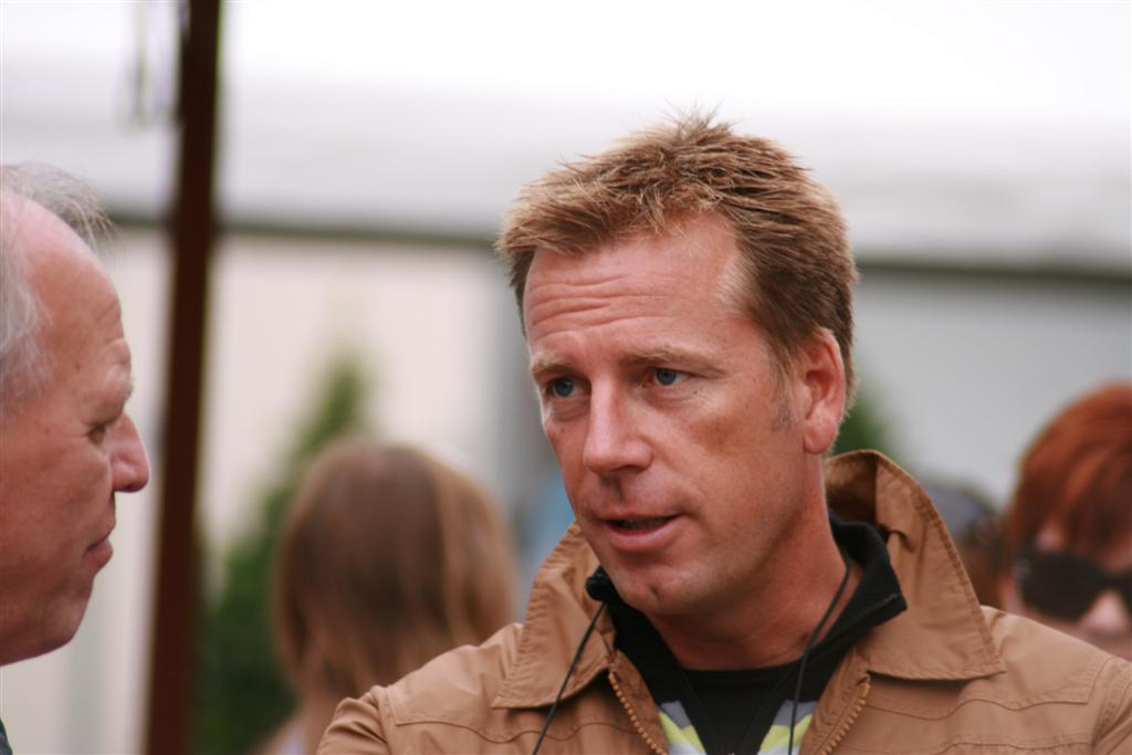 Dutch television host Edward van Cuilenborg at the start of the second stage of the Eneco Tour in Roermond, the Netherlands.